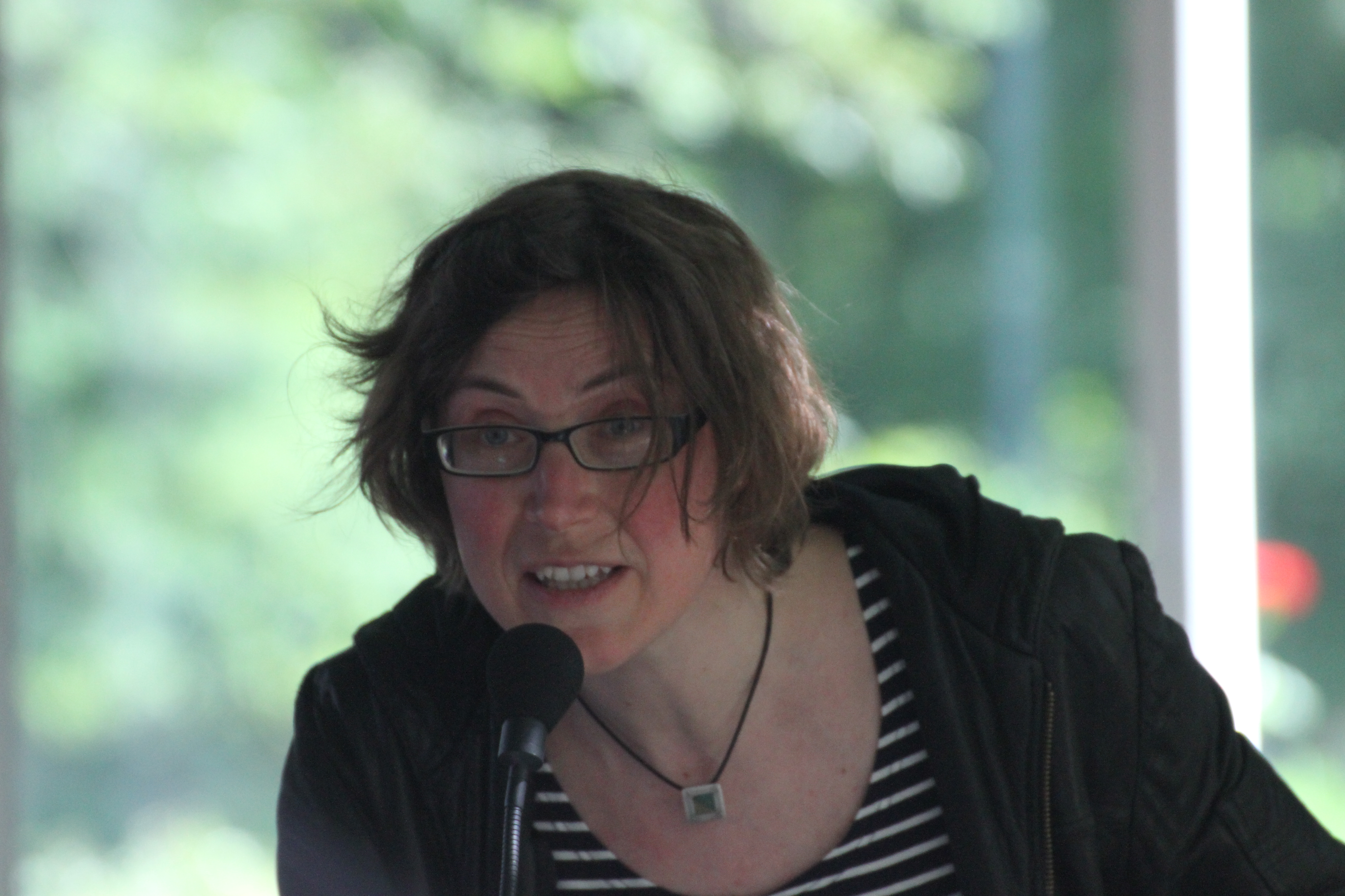 Kristin Schulz at a reading in the book's garden at the Lyrikmarkt in Berlin 2016